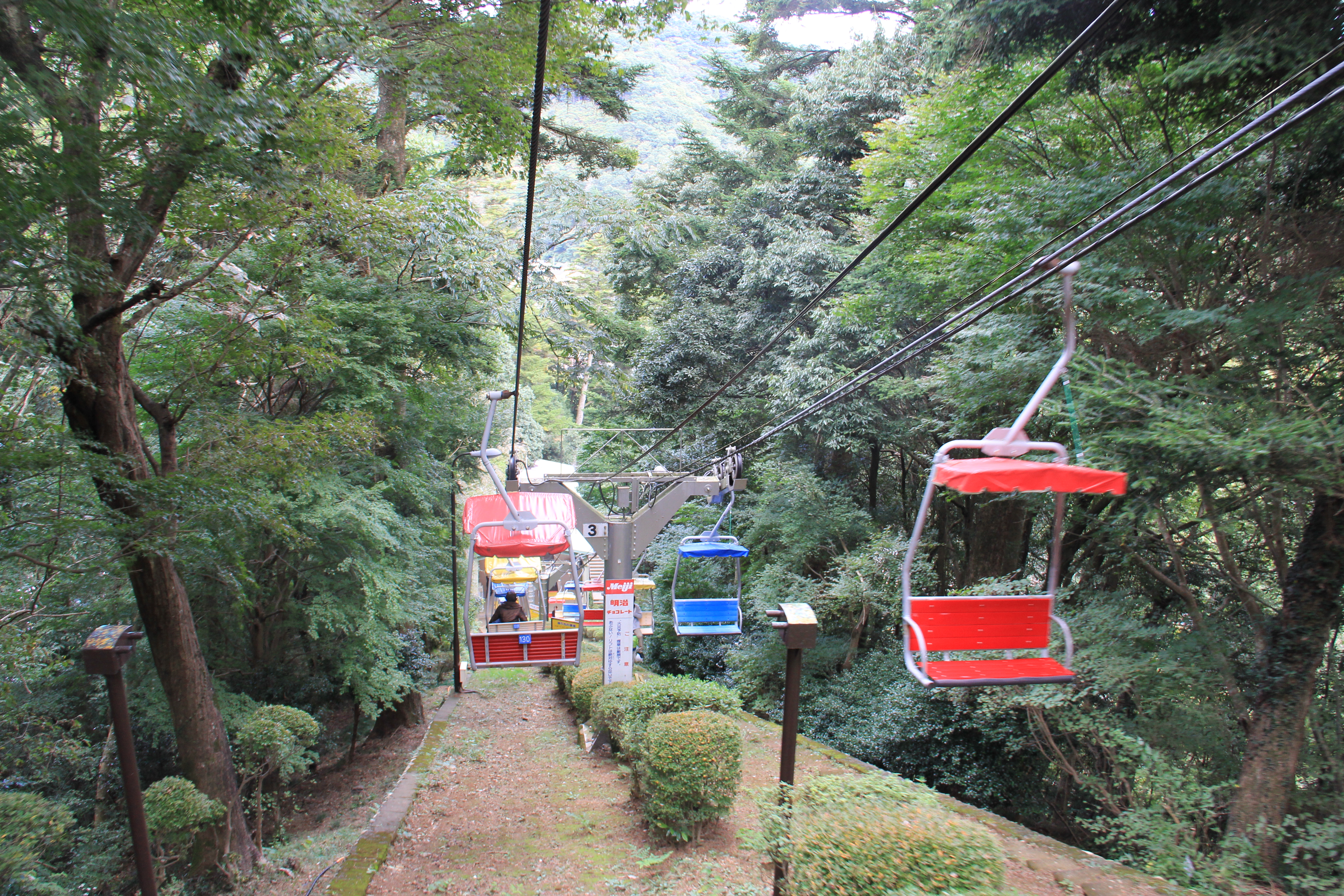 Takaosan in Tokyo